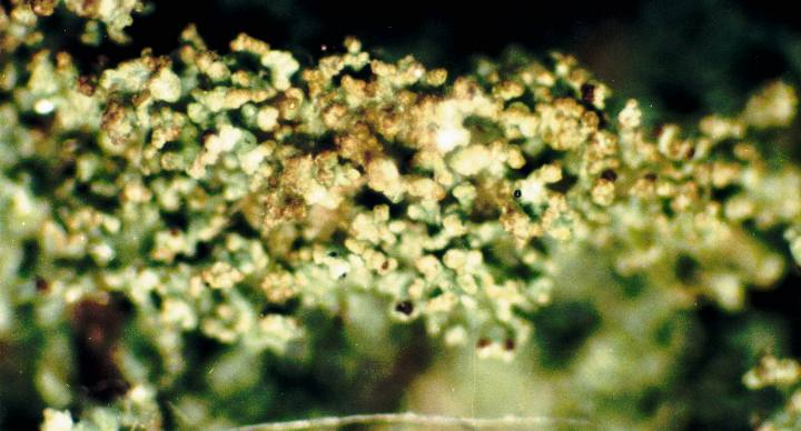 Cladonia parasitica (Hoffm.) Hoffm., 1796 Photograph of a herbarium specimen taken through a dissecting microscope (x40) showing the isidiate thallus. C. parasitica was growing on a dead limb on the ground near a small stream, down hill from the Log Cabin Cellar (Middle Sector) at Soldiers Delight Natural Environment Area, Baltimore County, Maryland, USA (N 39o24.340', W 76o50.303', Elevation 599 feet) Collected and identified by E.C. Uebel (No. U-601, 31 May 2006)